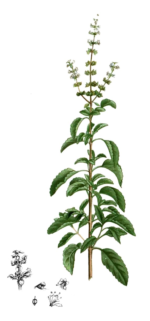 Plate from book